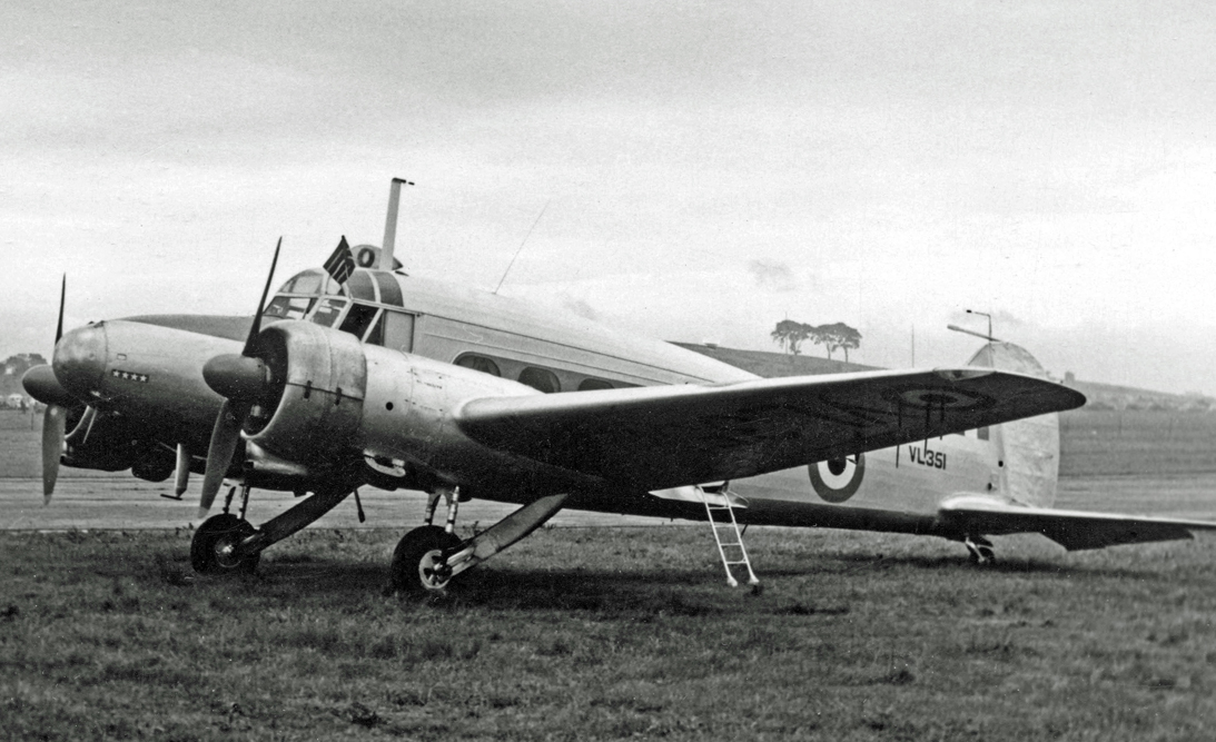 Avro Anson C.19 of RAF Home Command Communications Squadron